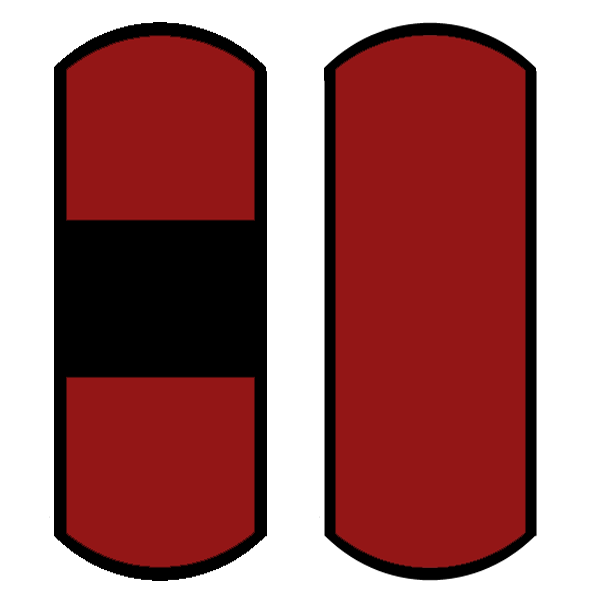 Image showing a slahal set.